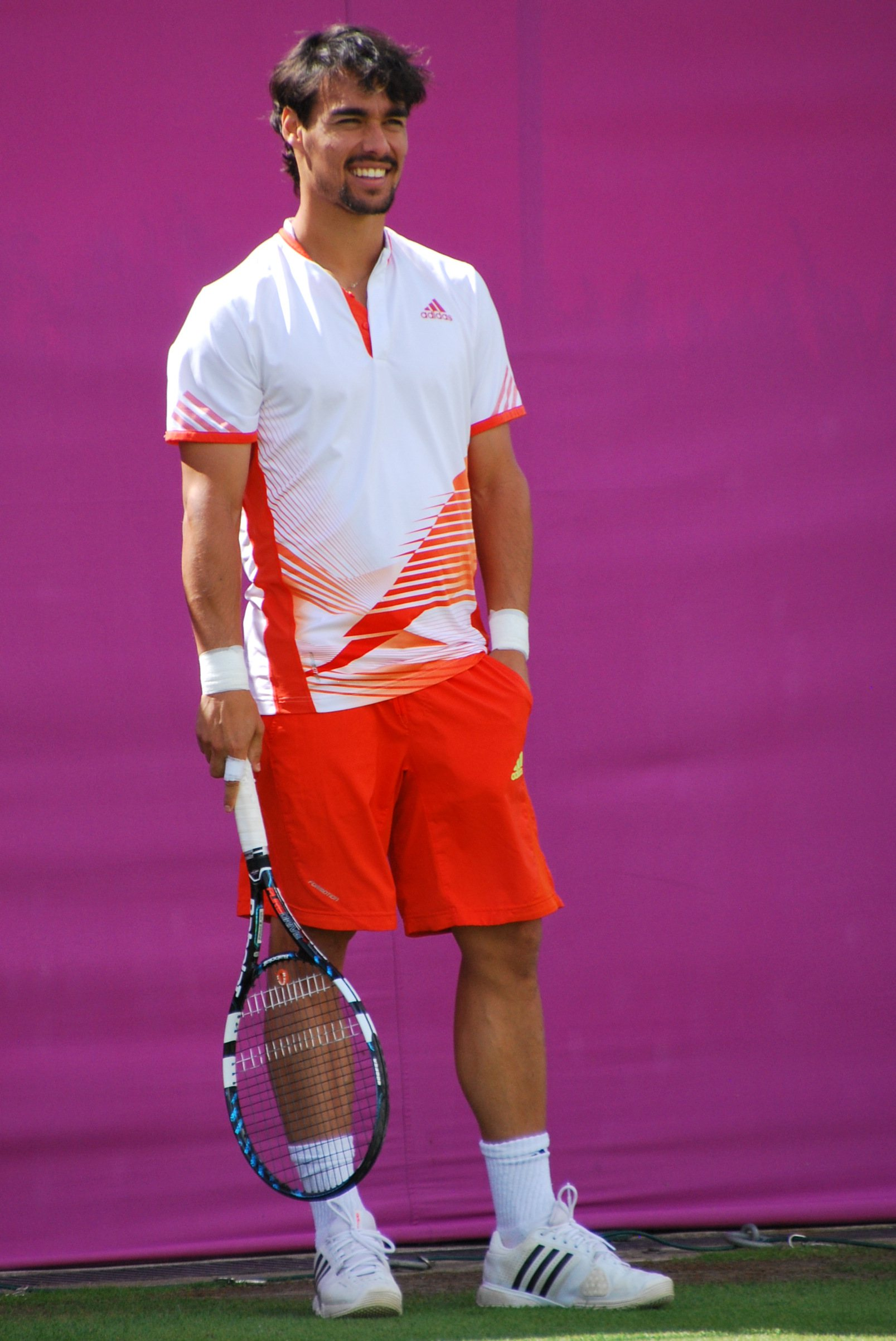 Fabio Fognini at the 2012 Summer Olympic Games.